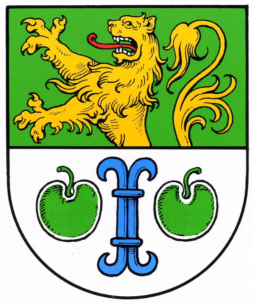 Coat of Arms of Ramlingen-Ehlershausen, Part of Burgdorf